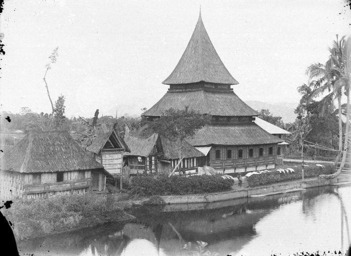 A mosque near Fort de Kock